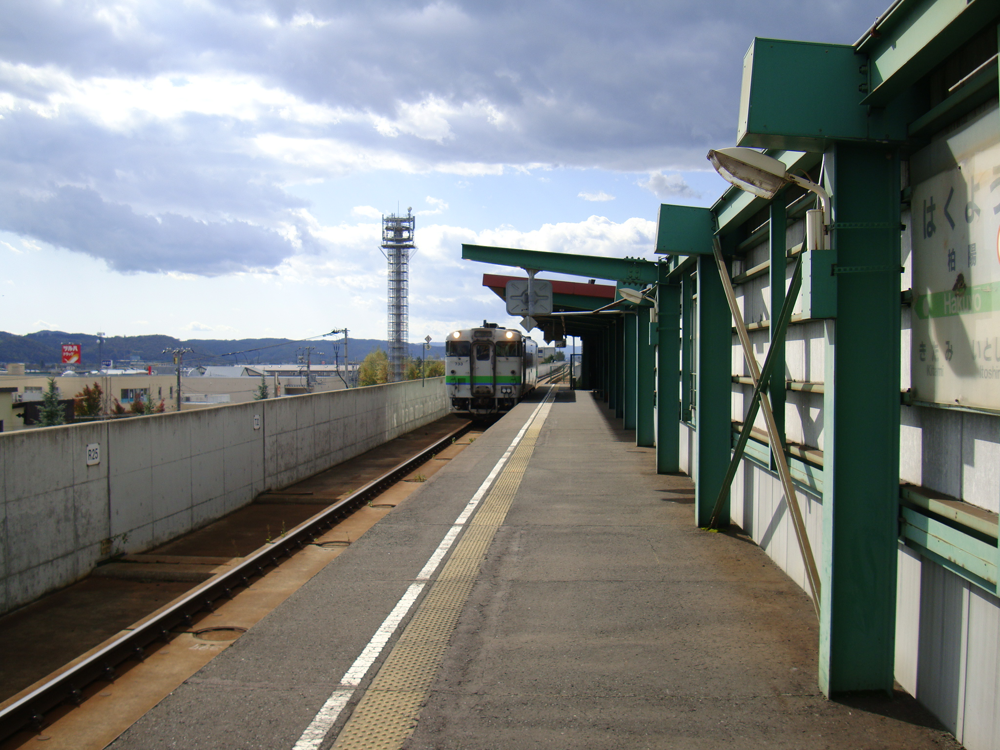 Hakuyō Station